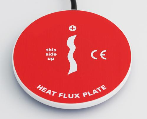 A heat flux plate is used for measuring heat flux (in Wm-2). It usually consists of a sensor surrounded by a protective material, as in this HFP01 heat flux plate. Shown here is sensor with manufacturers name digitally removed.